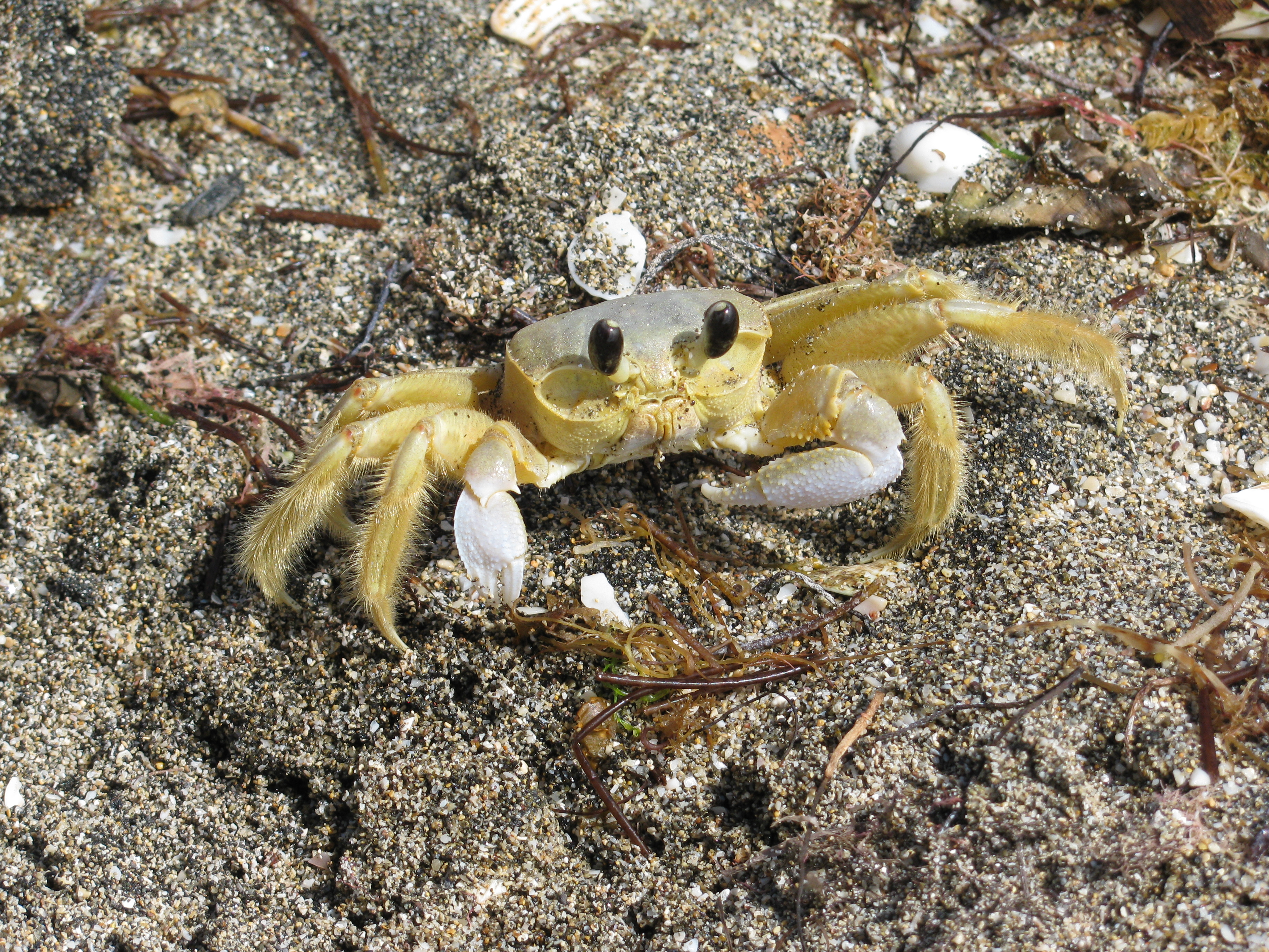 Ocypode quadrata from South Frigate Bay beach in Saint Kitts.